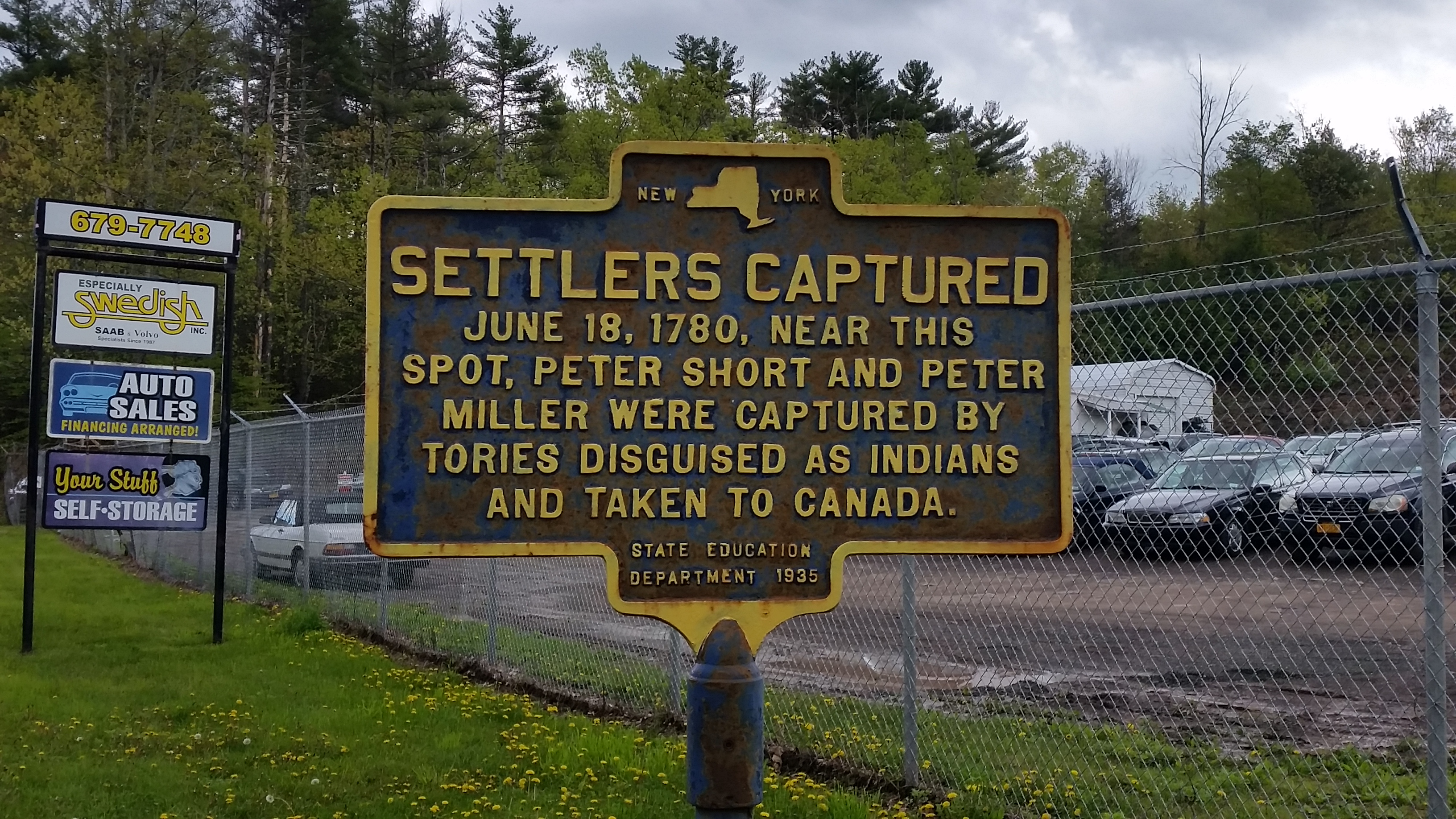 NY State Historical marker documenting the treachery of Tories, the use of Native American tropes, and that Canada is the real enemy